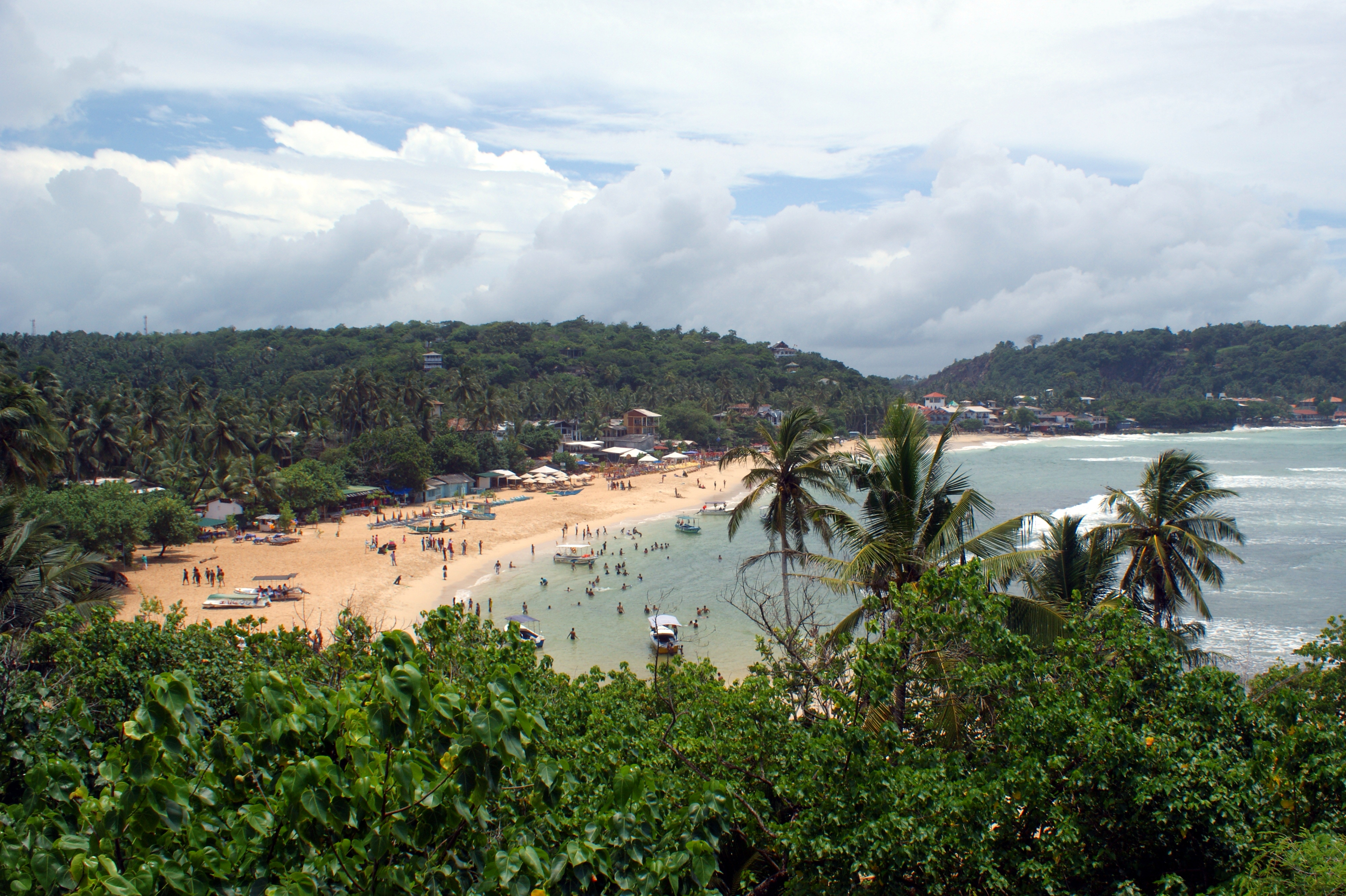 Unawatuna Beach (as seen from Stupa at the southern end)